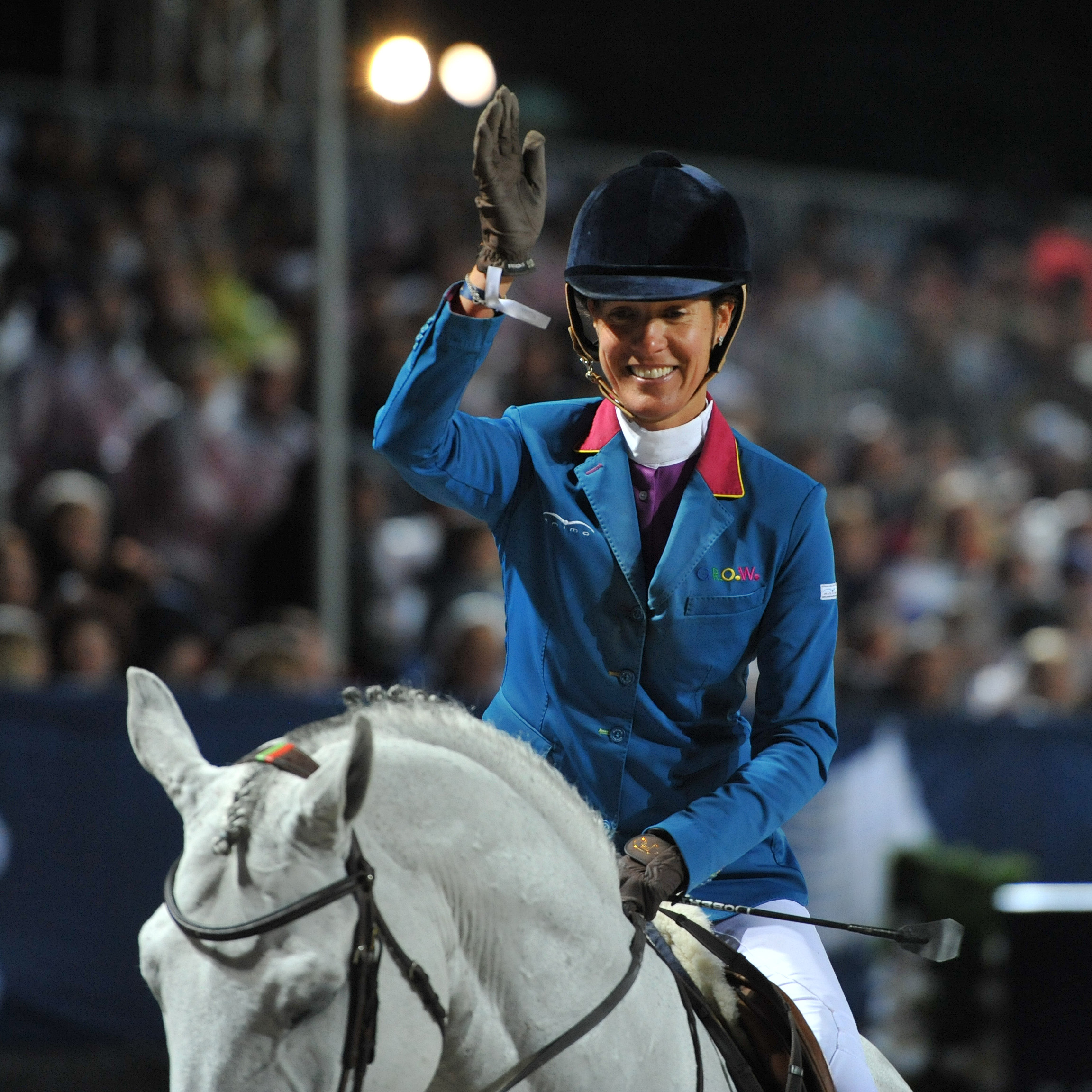 Vienna Masters am 21. September 2013 Longines Global Champions Tour Luciana Diniz (POR) auf Winningmood